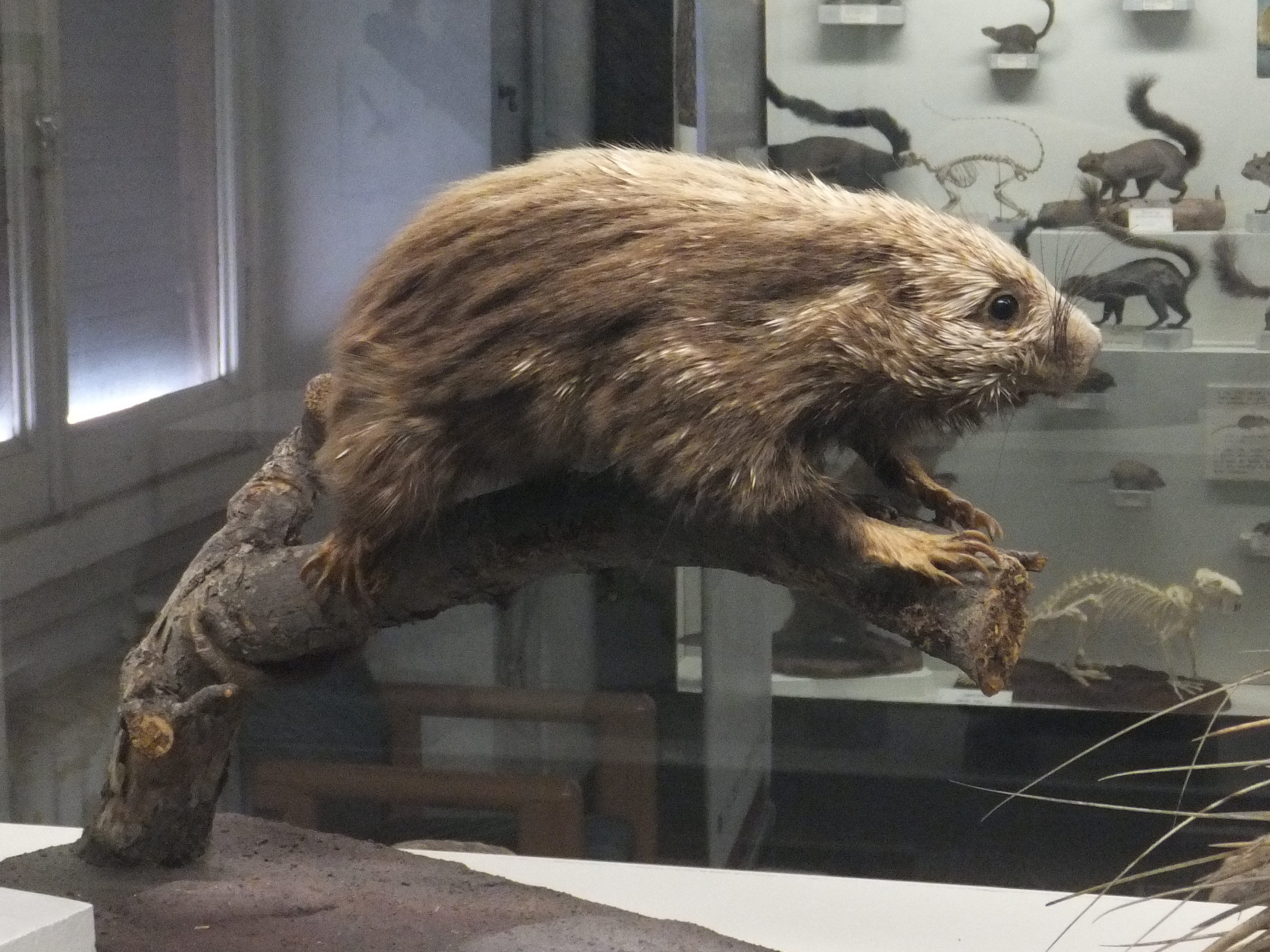 Taxidermy of a Sphiggurus spinosus (labeled as Coendou spinosus) at the Giacomo Doria museum of Genoa